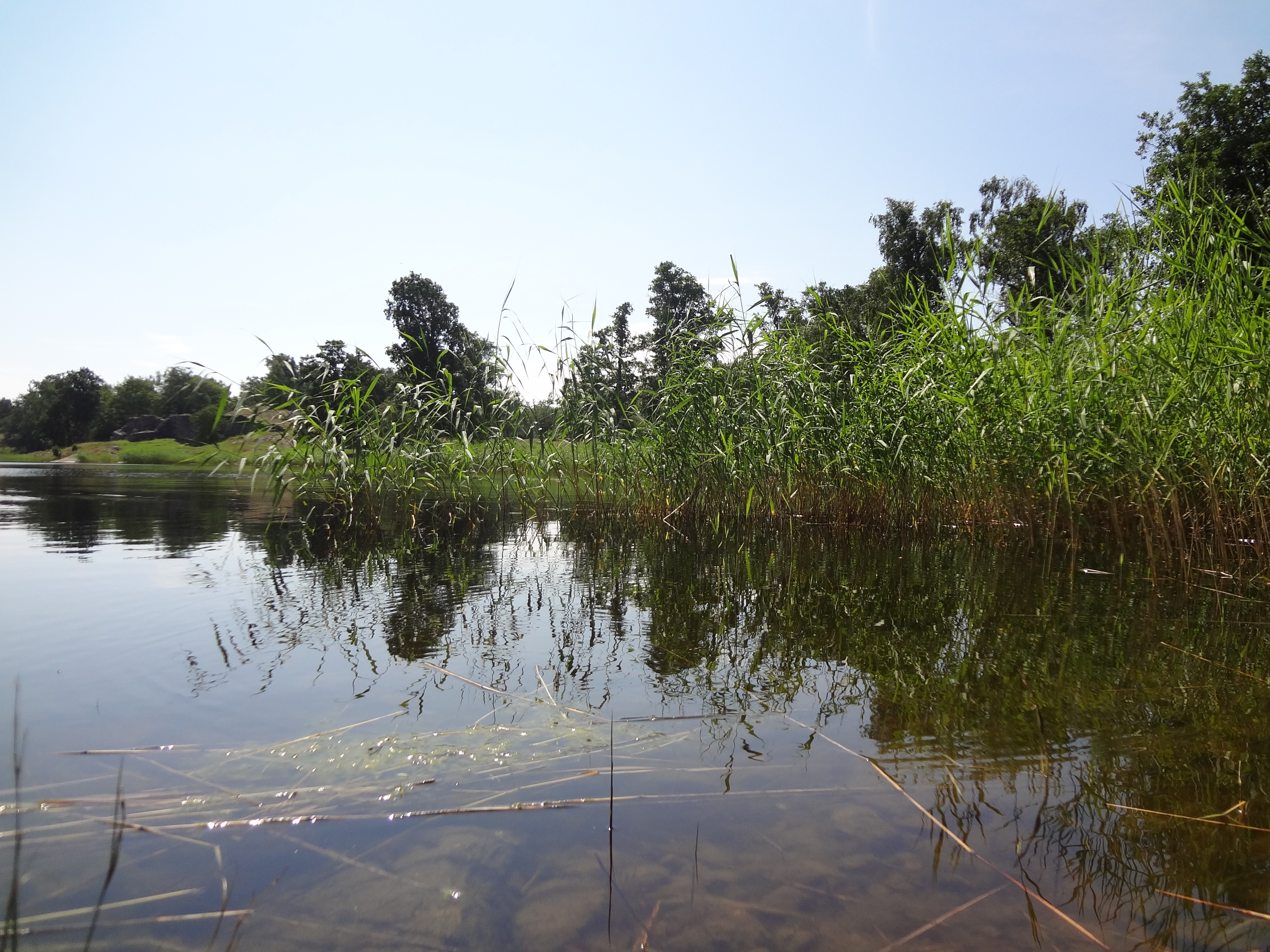 Lake Maren i Ornö, Stockholm.